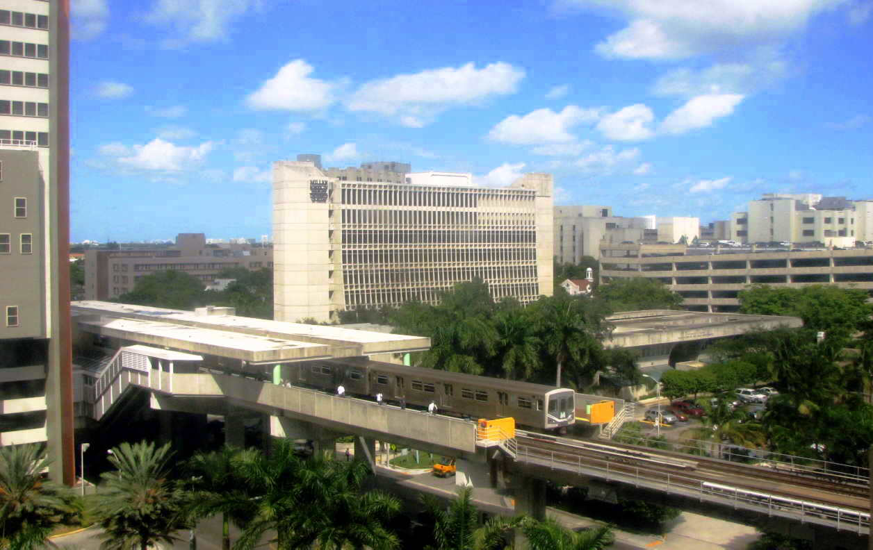 Civic Center Metrorail station, Miami